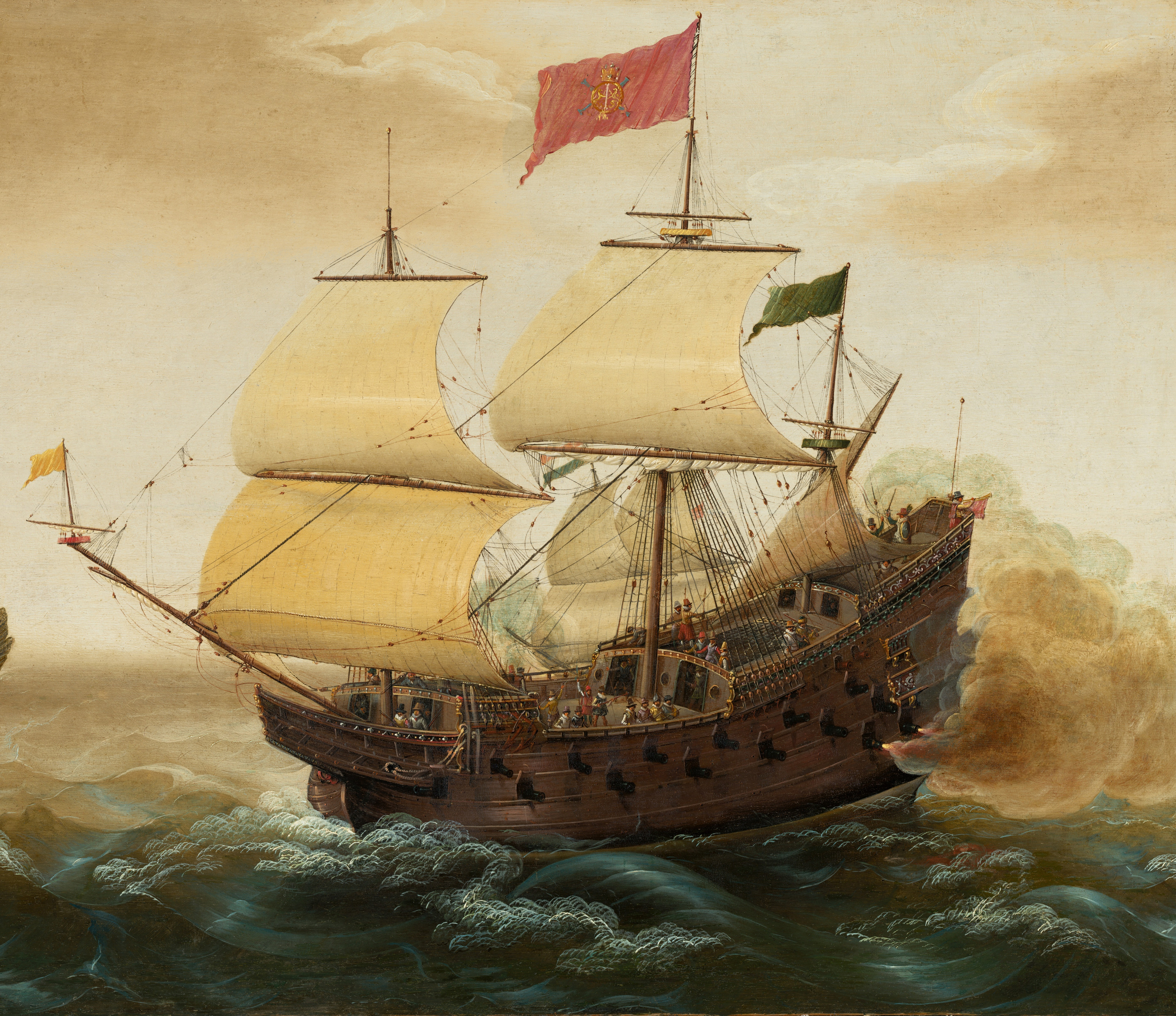 Spanish galleon firing its cannons at other ships